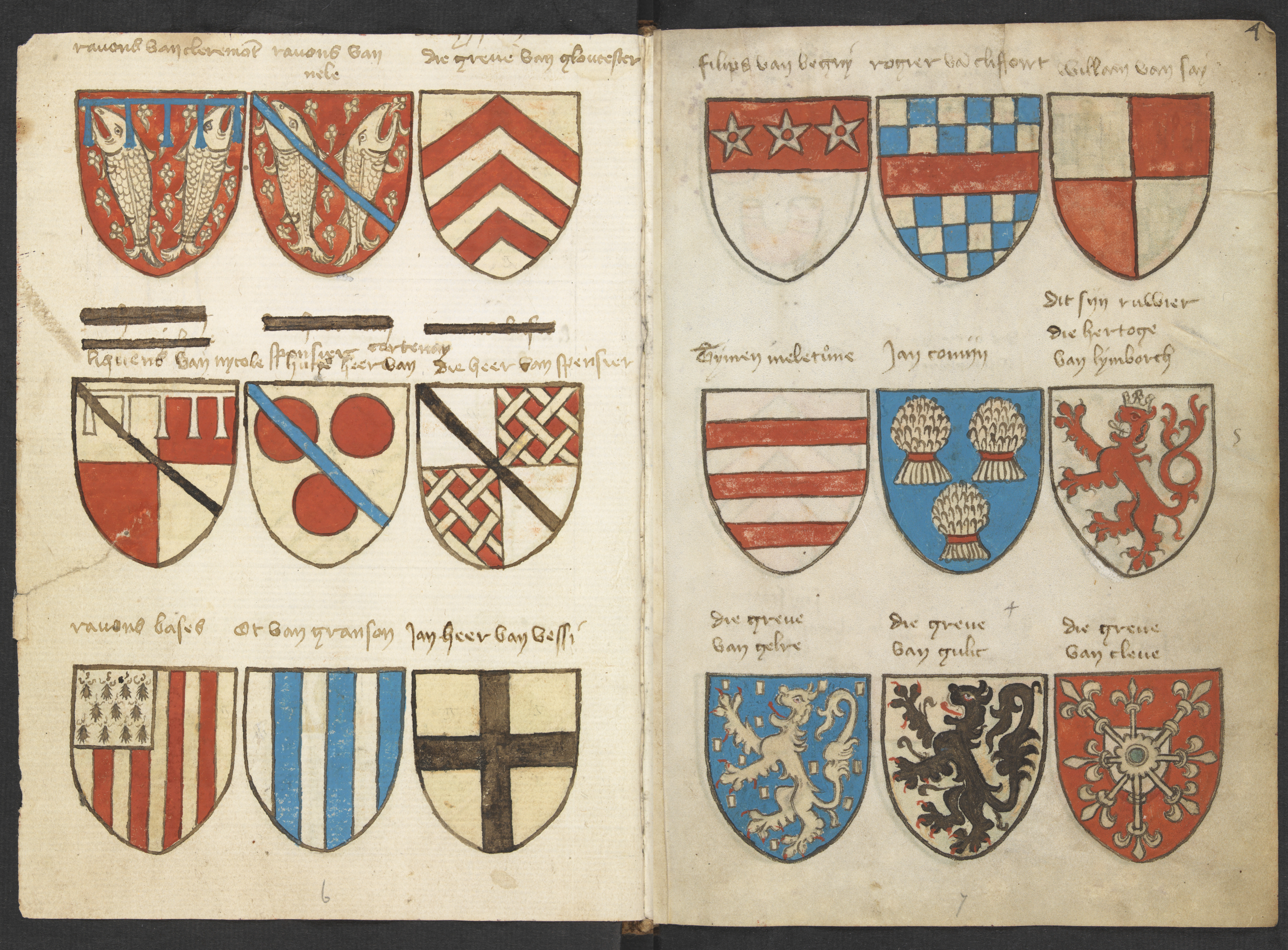 Lefthand side folio 003v; righthand side folio 004r from the Beyeren armorial / Wapenboek Beyeren